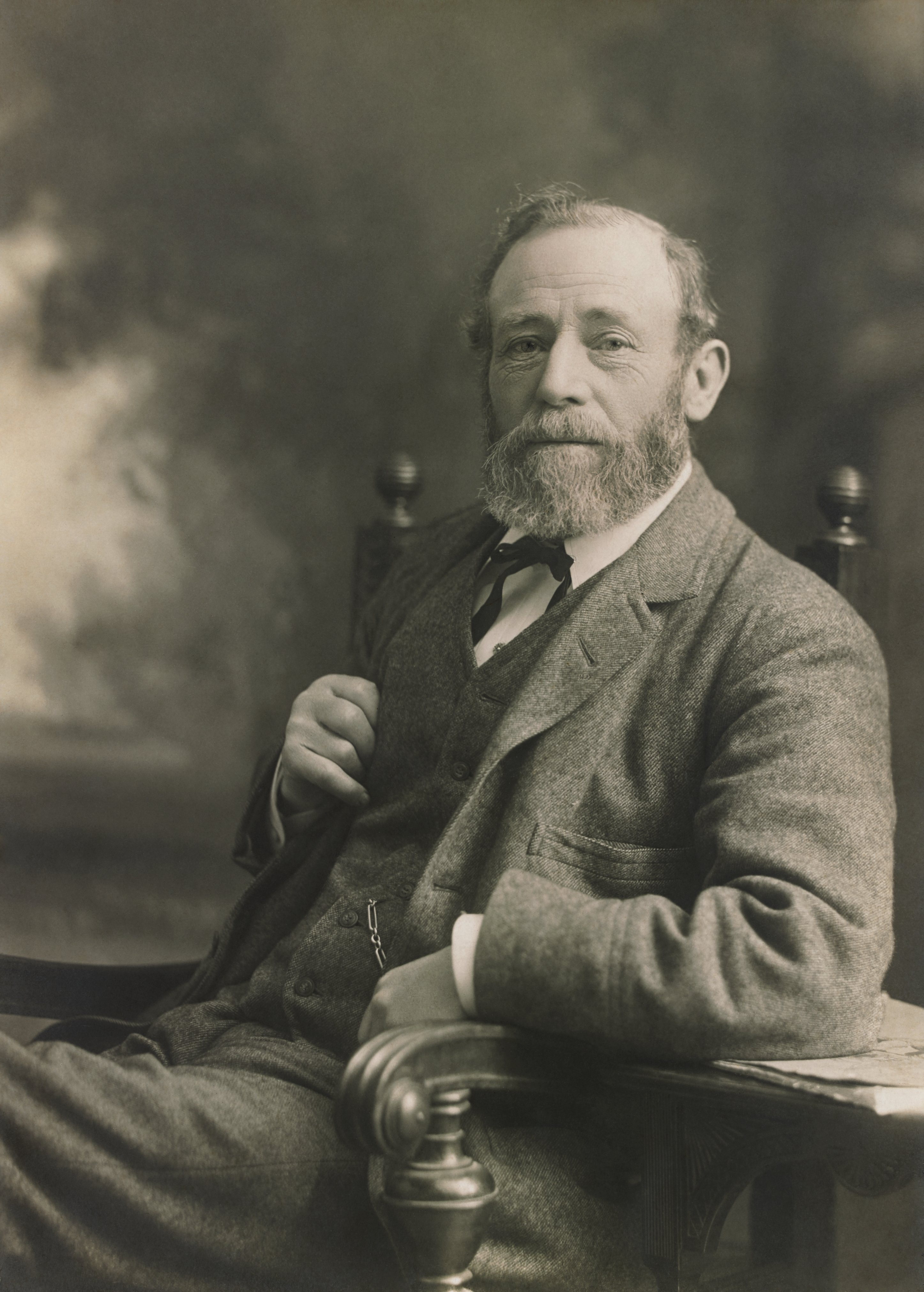 Studio portrait of photographer Charles Nettleton. Silver gelatin photographic print mounted on cardboard; 25 x 16 cm. Almost whole-length, to right, greying moustache and beard, sitting in chair.